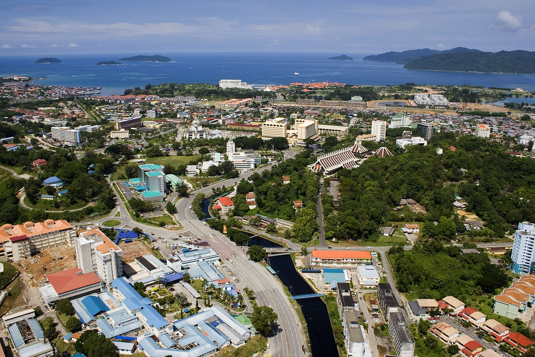 Aerial View from Penampang Suburbs facing the City of Kota Kinabalu